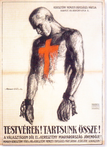 Election poster of Christian National Union Party (KNEP) for the 1920 Hungarian parliamentary election